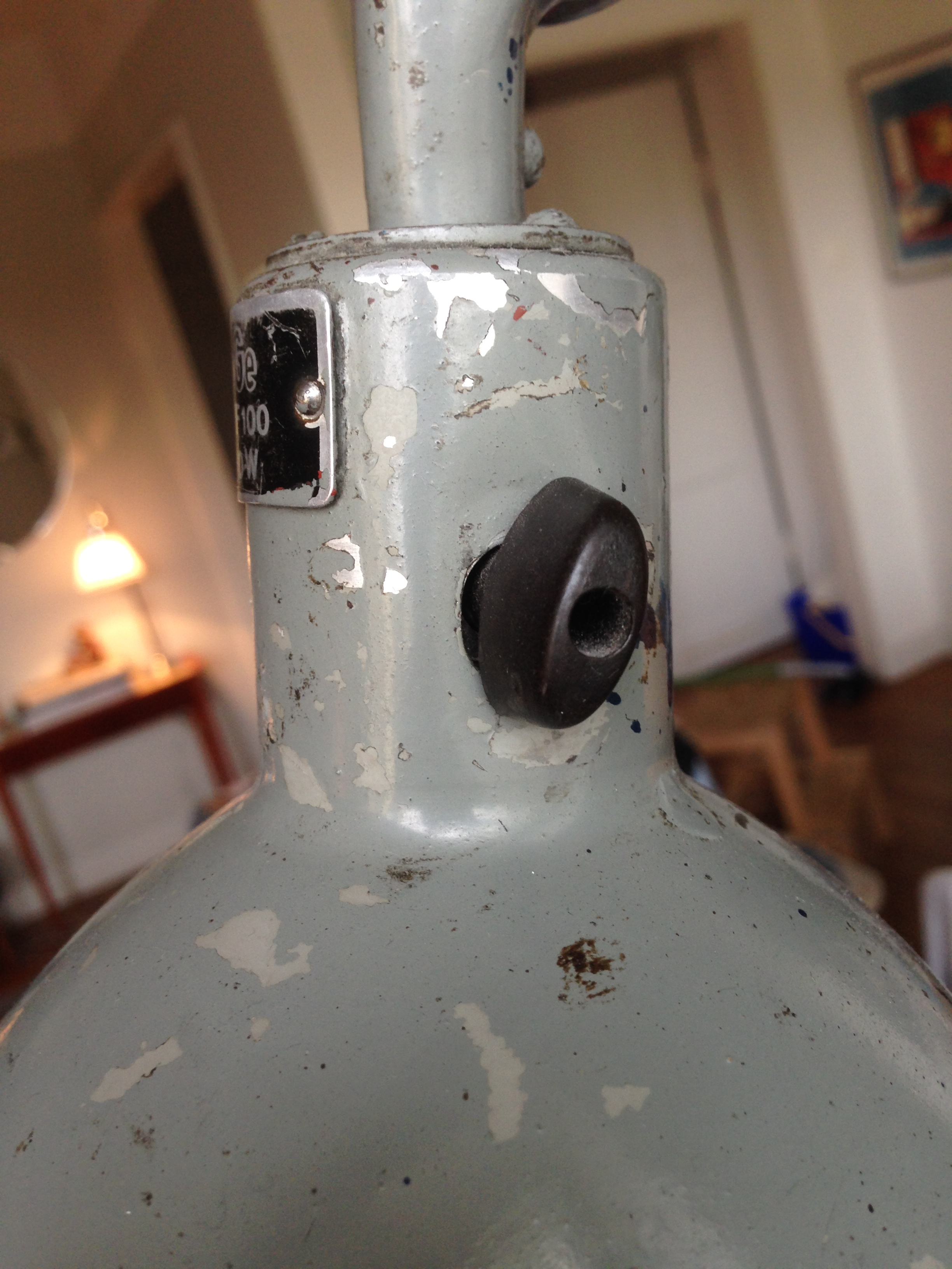 Light switch placed on lamp shade on industrial lamp from swedish PeFeGe (E. G. Eriksson Mekaniska Verkstad AB). Model F100.